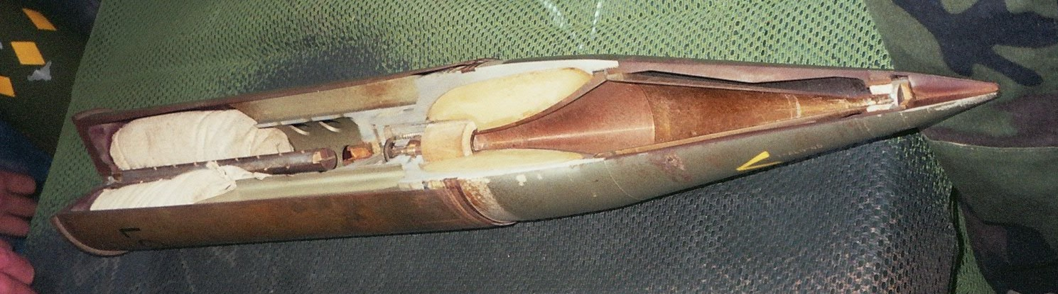 Nation/Defense days, Esplanade des Invalides, Paris, France, September 24-25, 2005